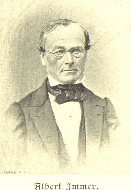 Albert Immer Image taken from: Title: "Die Schweiz im neunzehnten Jahrhundert. Herausgegeben von schweizerischen Schriftstellern unter Leitung von P. Seippel" Author: SEIPPEL, Paul. Shelfmark: "British Library HMNTS 9305.h.2." Volume: 02 Page: 148 Place of Publishing: Lausanne Date of Publishing: 1899 Issuance: monographic Identifier: 003330970 Explore: Find this item in the British Library catalogue, 'Explore'. Download the PDF for this book (volume: 02) Image found on book scan 148 (NB not necessarily a page number) Download the OCR-derived text for this volume: (plain text) or (json) Click here to see all the illustrations in this book and click here to browse other illustrations published in books in the same year.